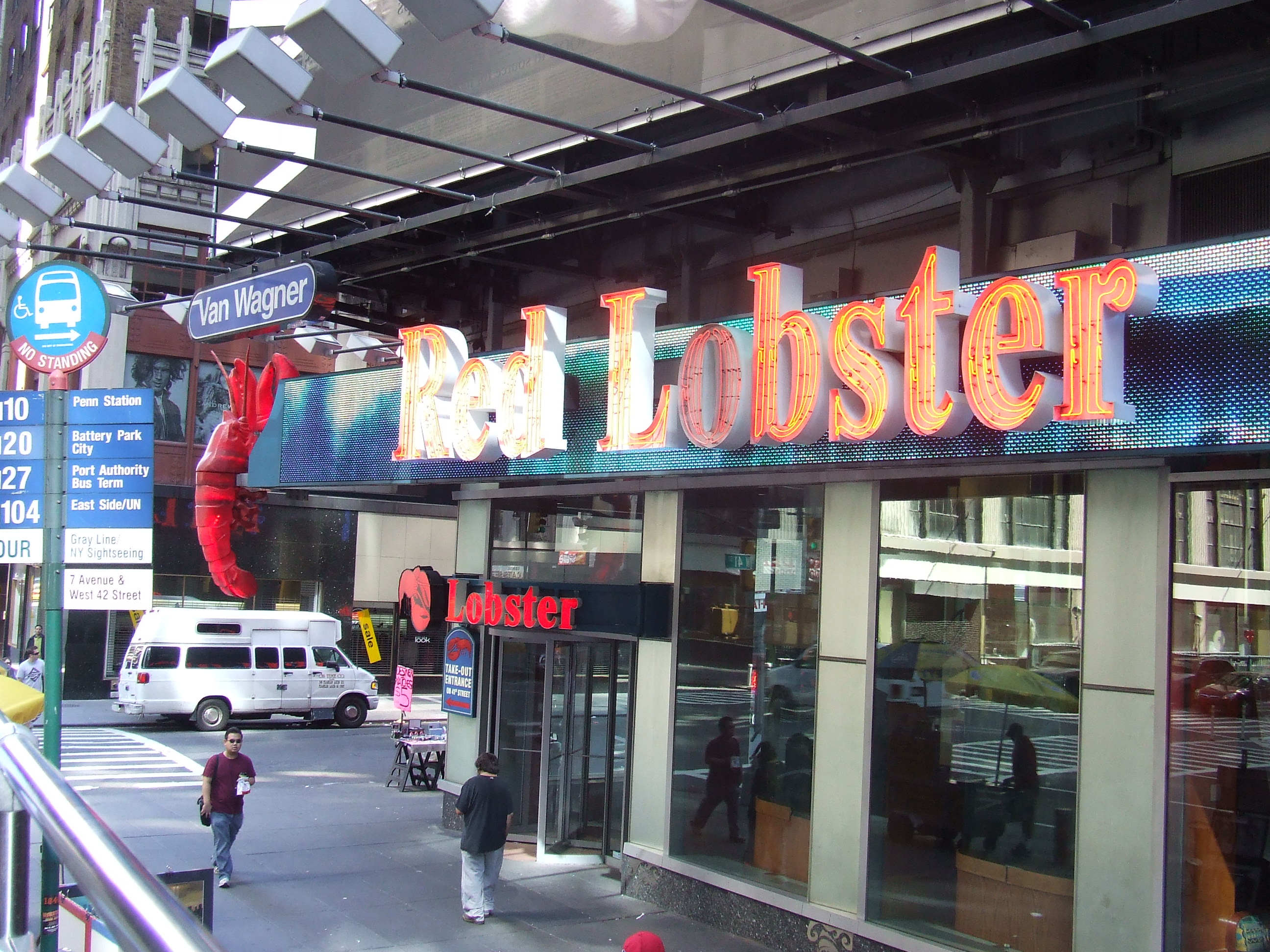 Looking south at Red Lobster, 7th Avenue & 41st